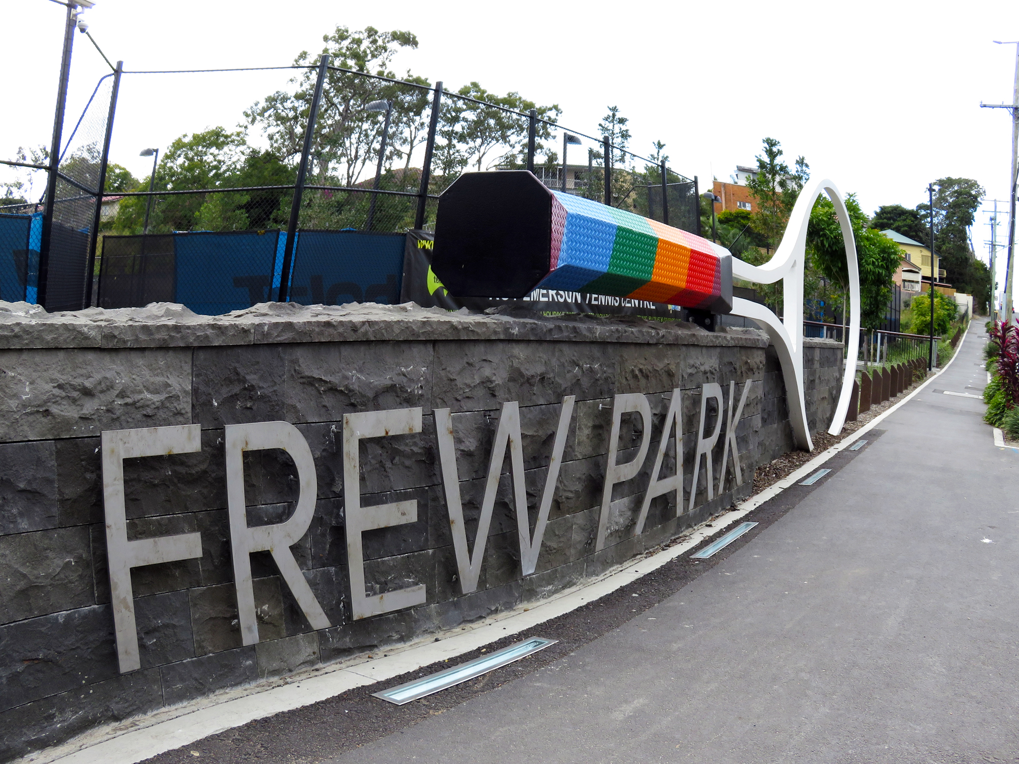 The Stefan Racquet - Frew Park, Milton, circa 2014. In June 2013, the giant tennis racquet, which previously featured at the old Milton Tennis Centre, was re-installed at Frew Park. The seven metre racquet once towered over the tennis centre, but was bought by Brisbane hairdressing entrepreneur, Steve 'Stefan' Ackerie, after the site was demolished.